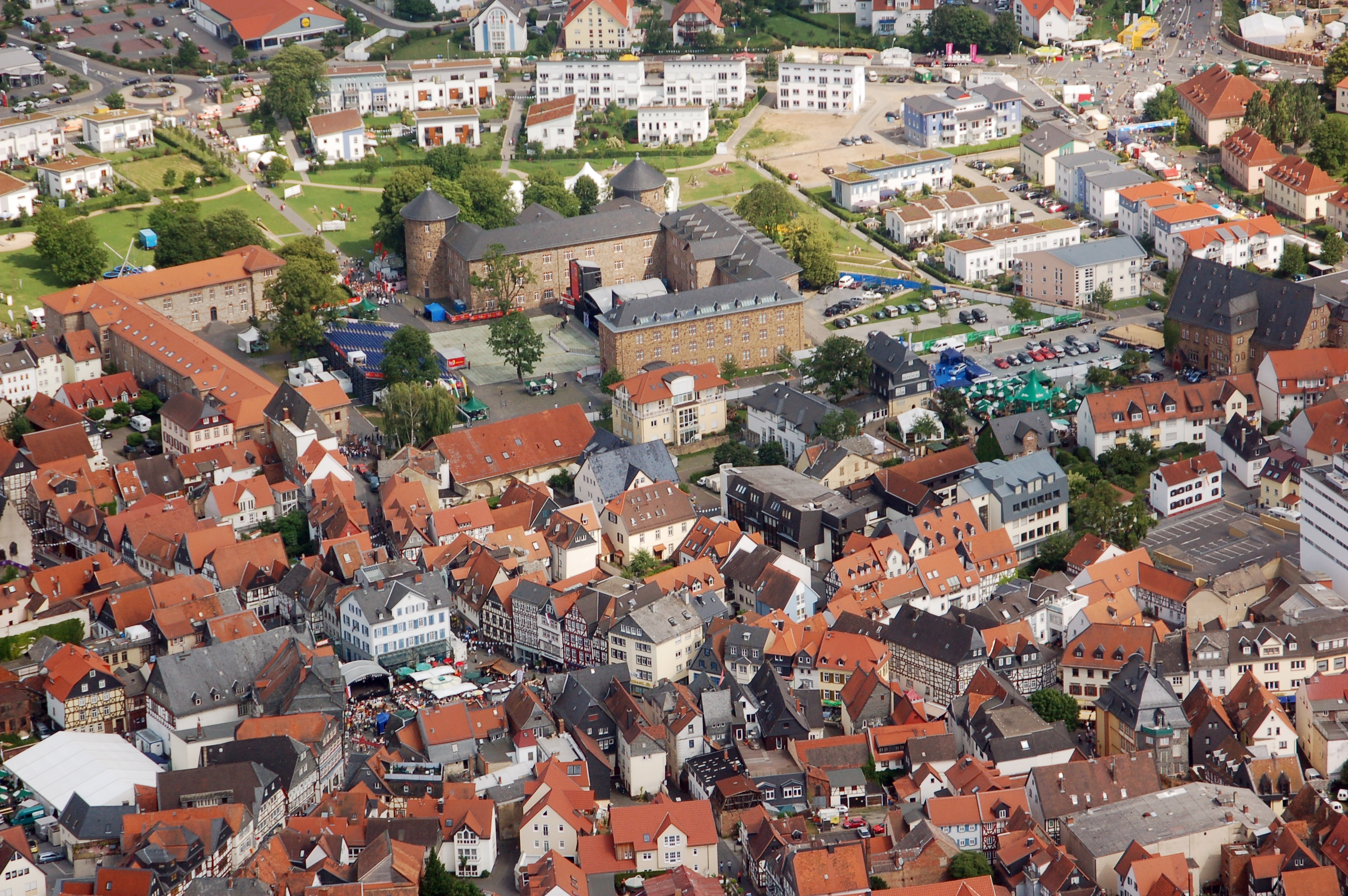 Aerial photograph of Butzbach, Hessen, Germany